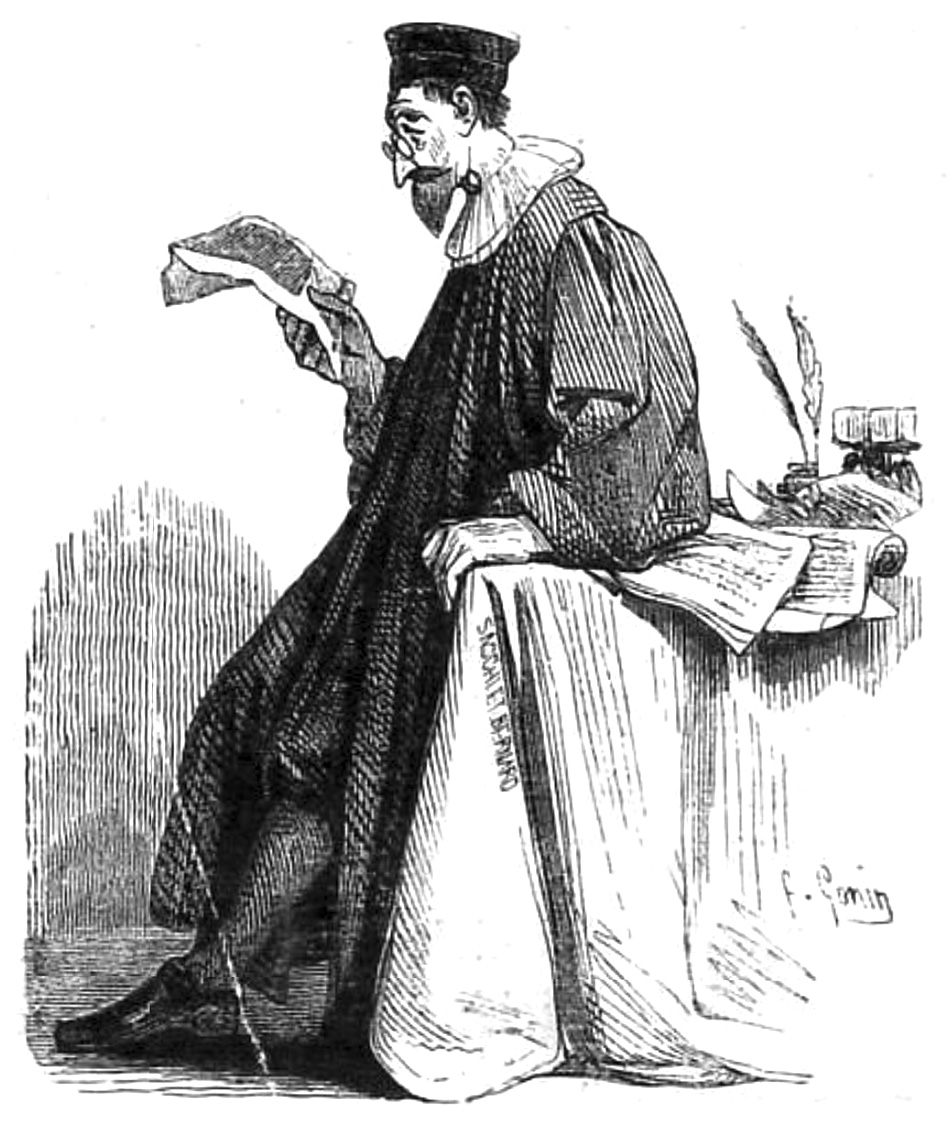 Picture from "I promessi sposi" of Azzecca-Garbugli